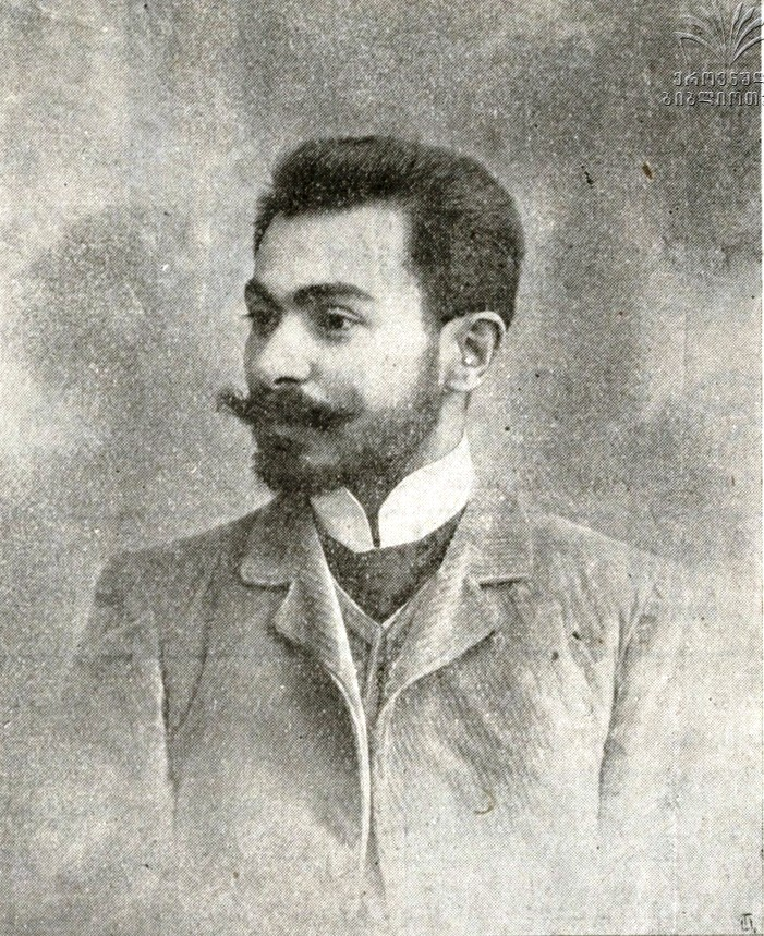 Konstantine Kavtaradze. A photo from Saxalxo Gazeti Suratebiani Damateba 1911 N69-2.